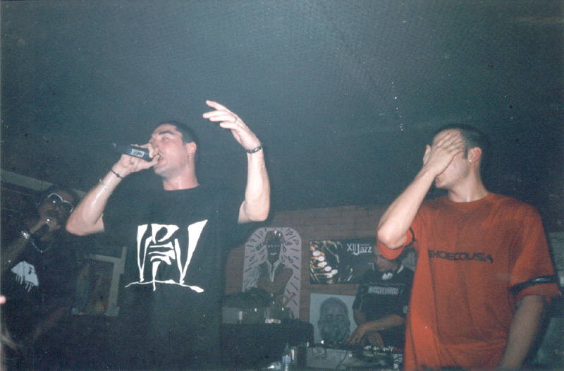 Violadores del verso is a spanish hip-hop group. Picture taken in Lugo (Spain) Datos de la fotografía Author: efremigio, Date: 2002 License: GNU FDL, Own work. Notes: Violadores del verso is a spanish hip-hop group. Categoría:Músicos (imagen)